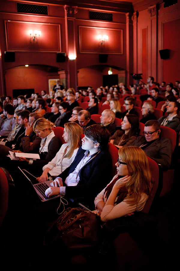 CopyCamp conference 2013 (cinema Muranów, Warszawa)